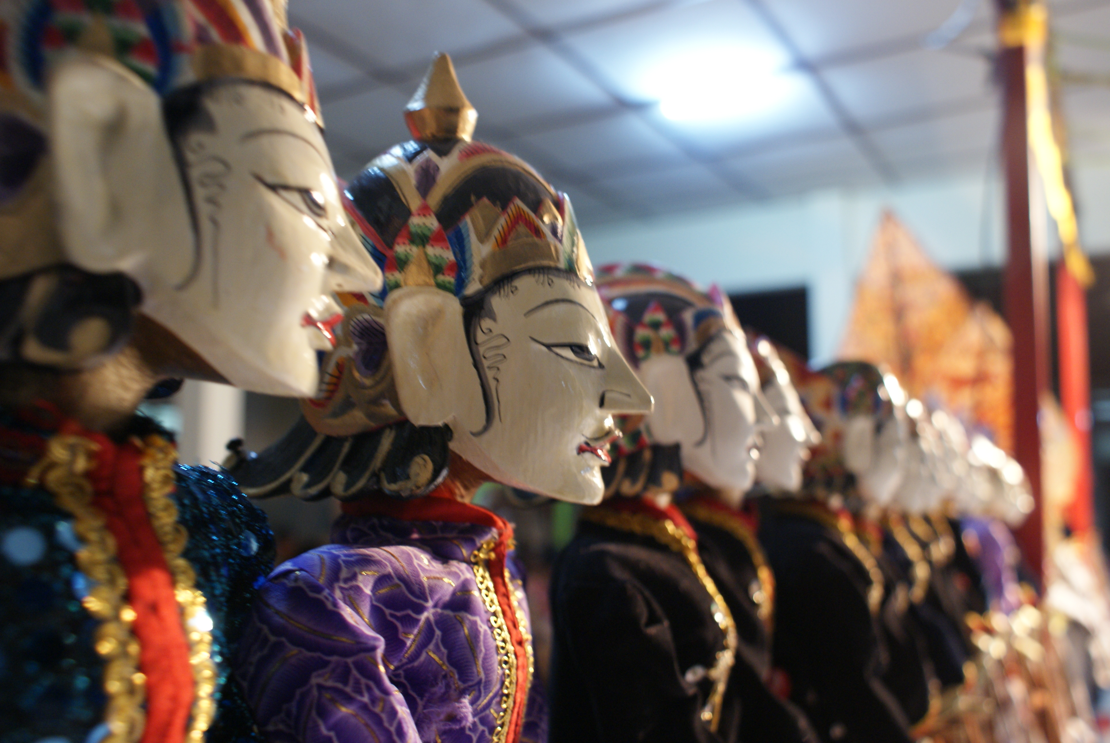 A pair of wayang golek, wooden doll puppets that are operated from below by rods connected to the hands and a central control rod that runs through the body to the head, from Yogyakarta, Indonesia.